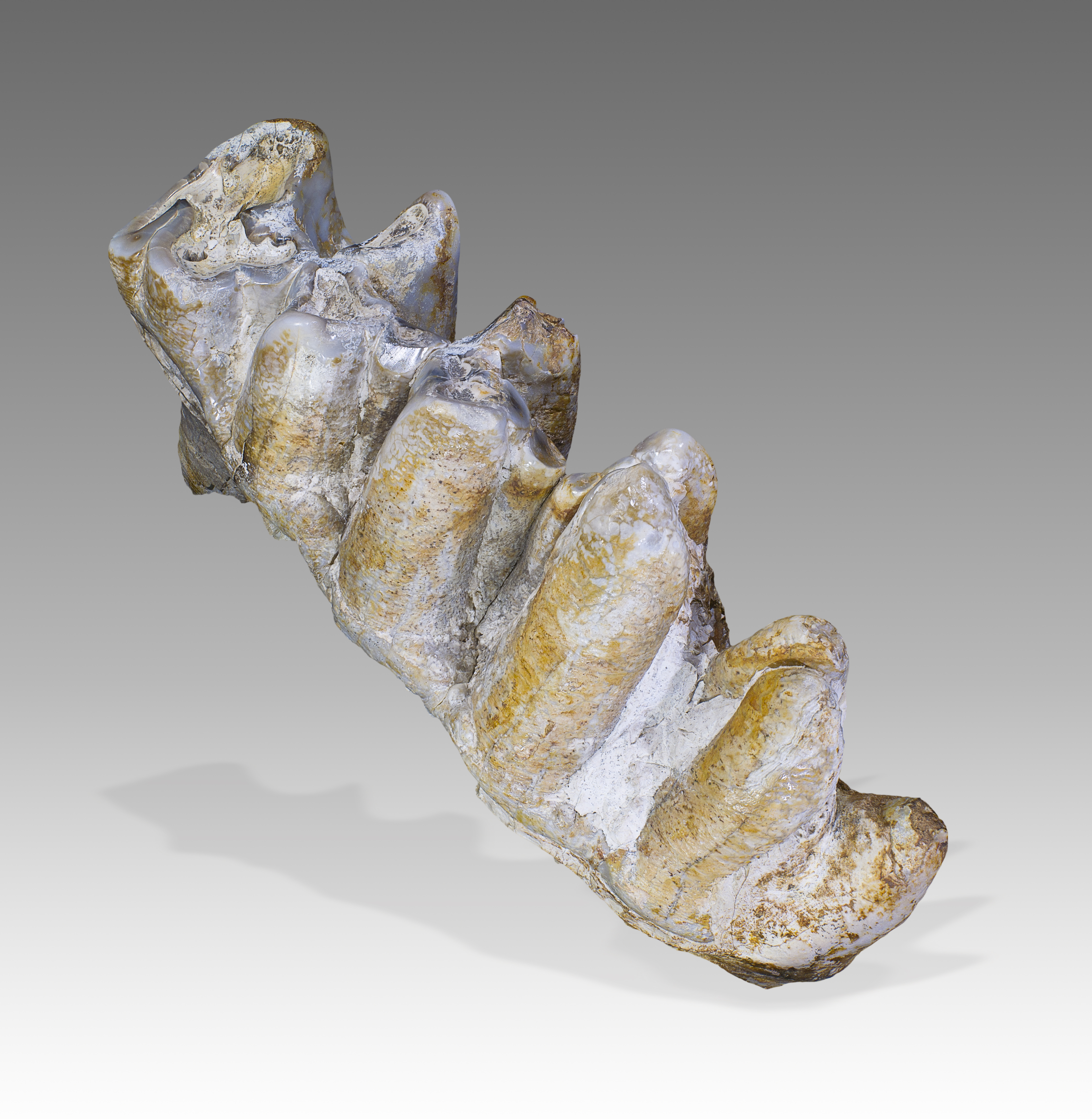 Platybelodon grangeri molar Stage : 14 - 5.3 million years ago Miocene Locality : Linxia Basin - Gansu, Northwestern China Size : 20x9x6 cm